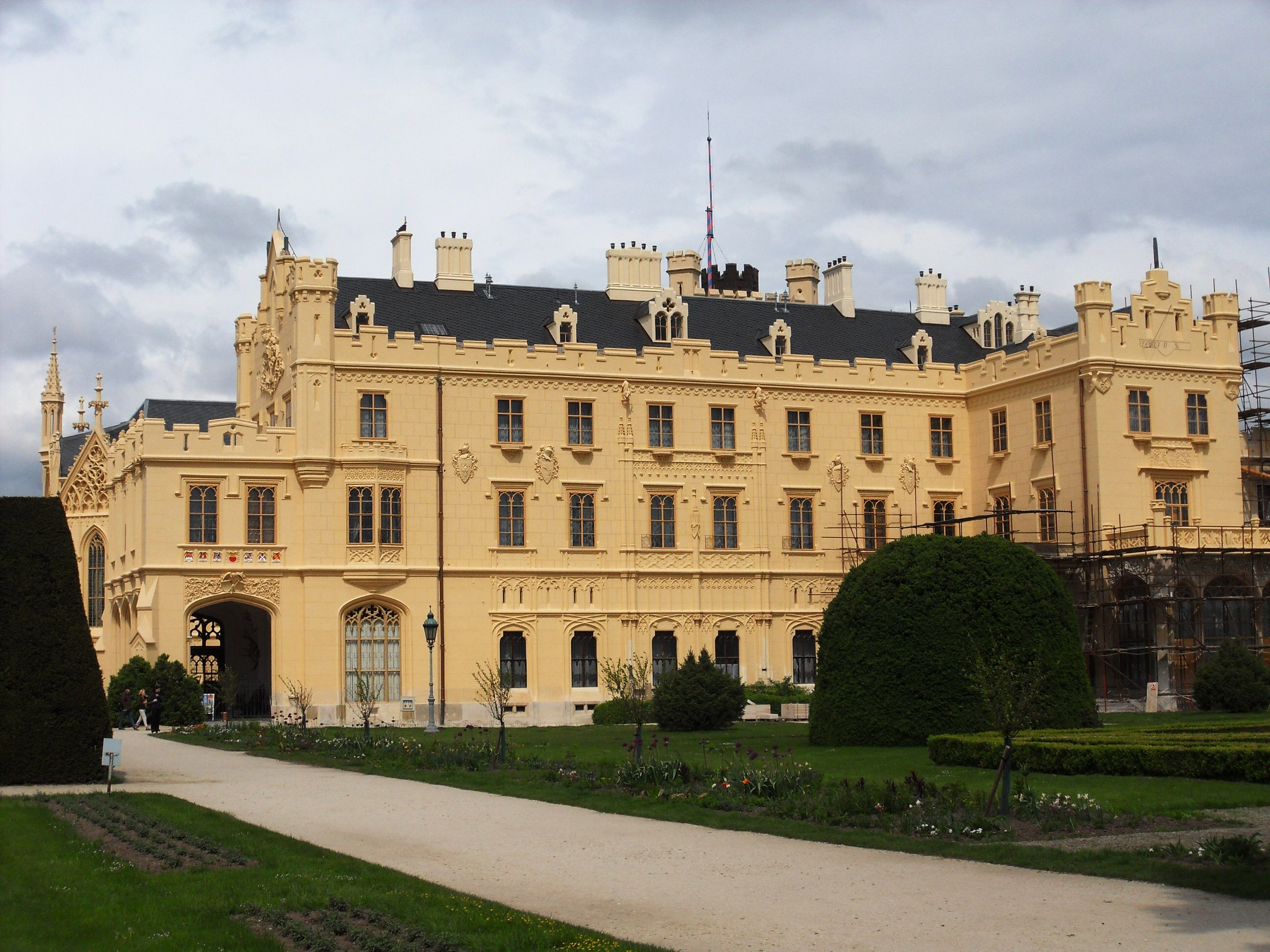 Lednice castle, Lednice, Břeclav district, Czech Republic